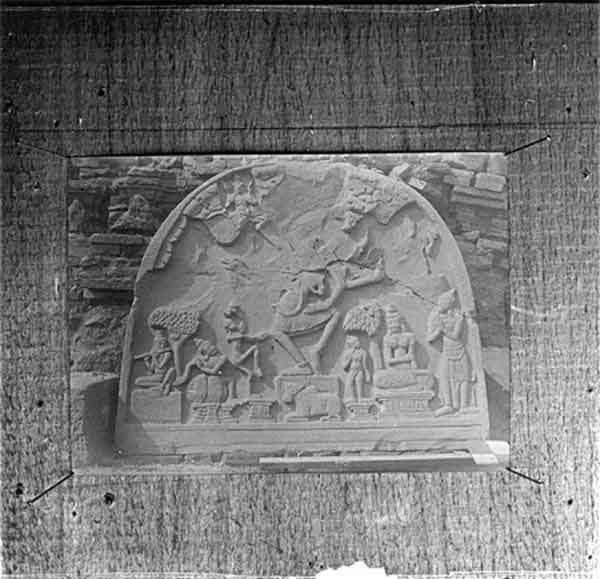 Tympan du temple C1 de My Son représentant Shiva dansant, fouilles de 1903-1904 (photothèque EFEO, CAR00042, cliché Ch. Carpeaux)